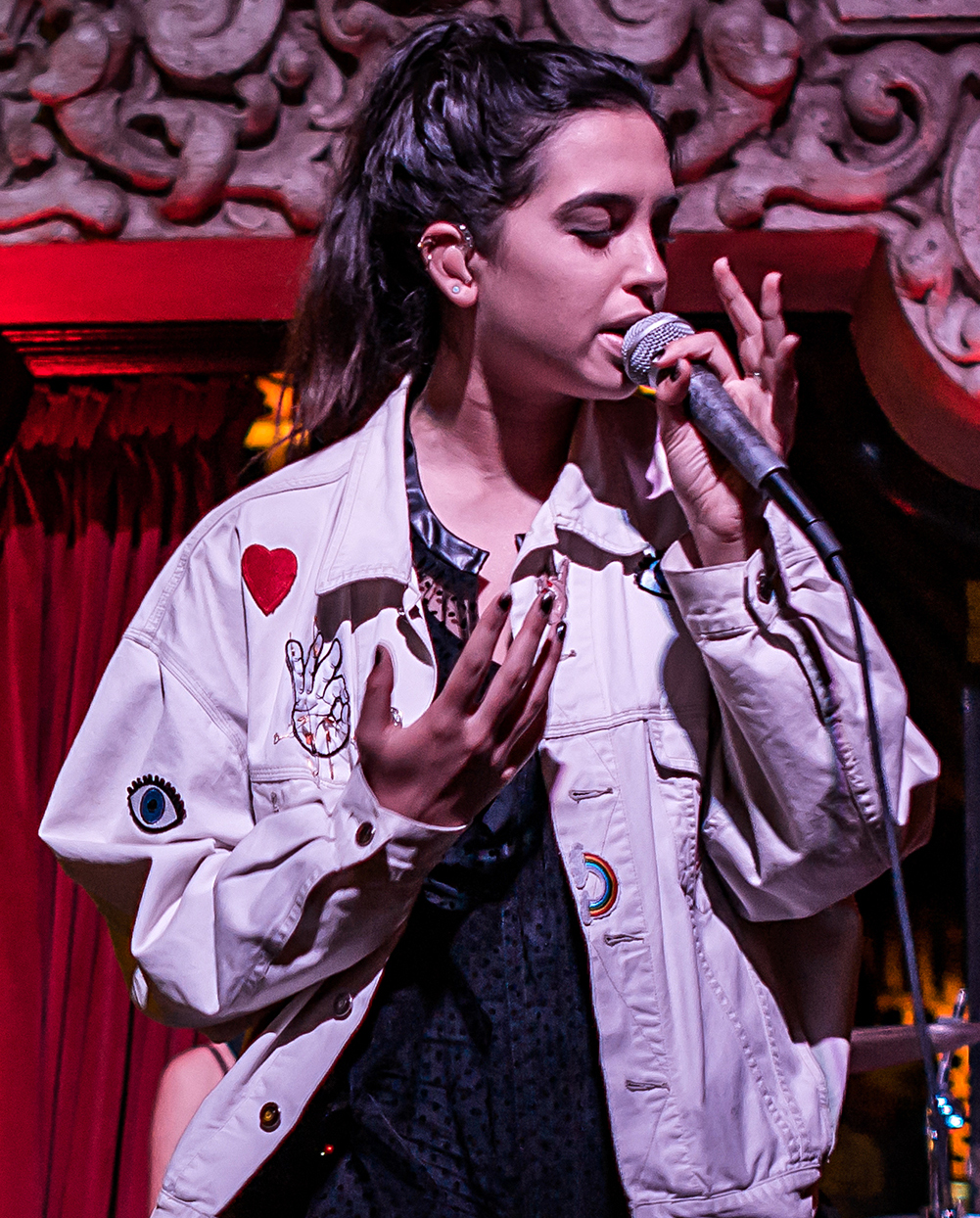 Jess Kent at School Night at Bardot